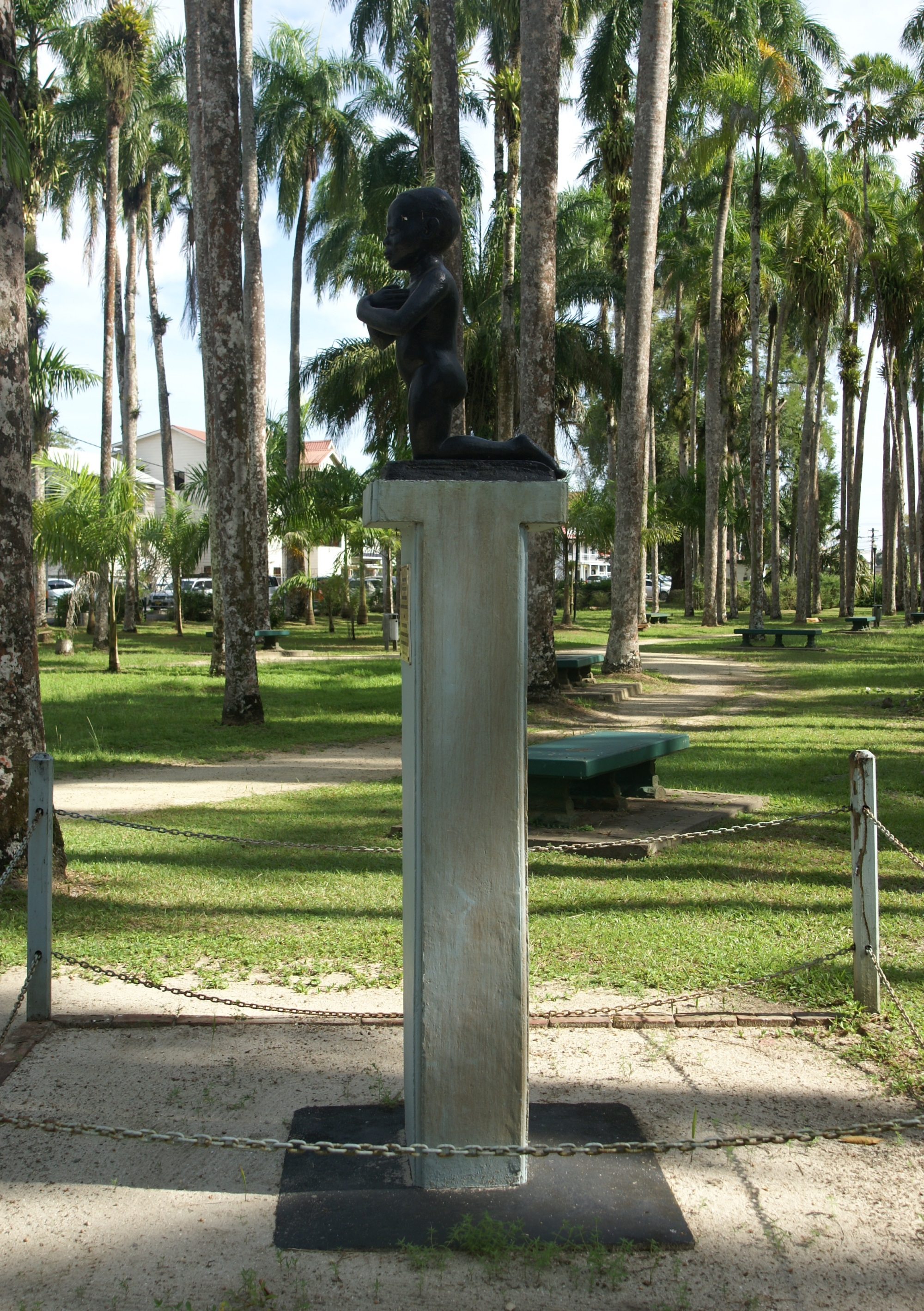 Statue of Ruben Klas, Palmentuin, Paramaribo, Surinam. By Jozef Klas. 20th century.